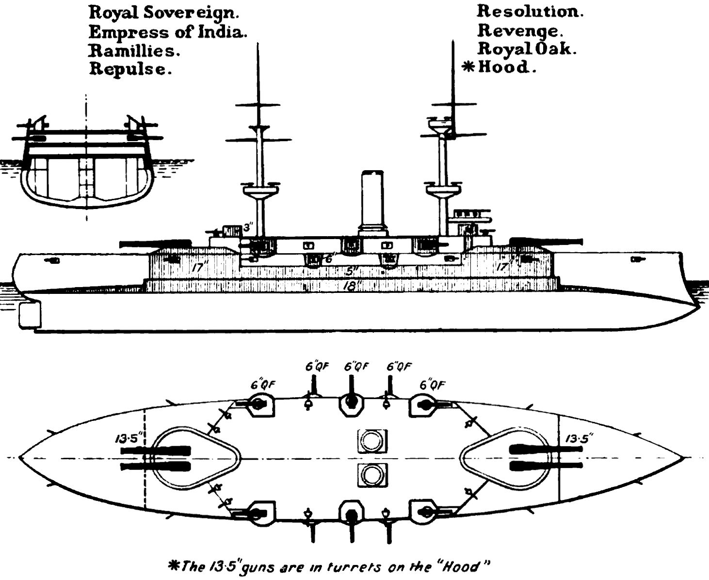 Right elevation and deck plan depicting British Royal Sovereign class battleship. Top diagram (right elevation) shows armour thickness in inches. Bottom diagram (deck plan) shows gun sizes in inches.